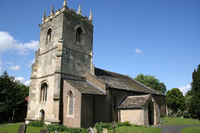 St Wifrid's parish church, Cantley, South Yorkshire, seen from the south